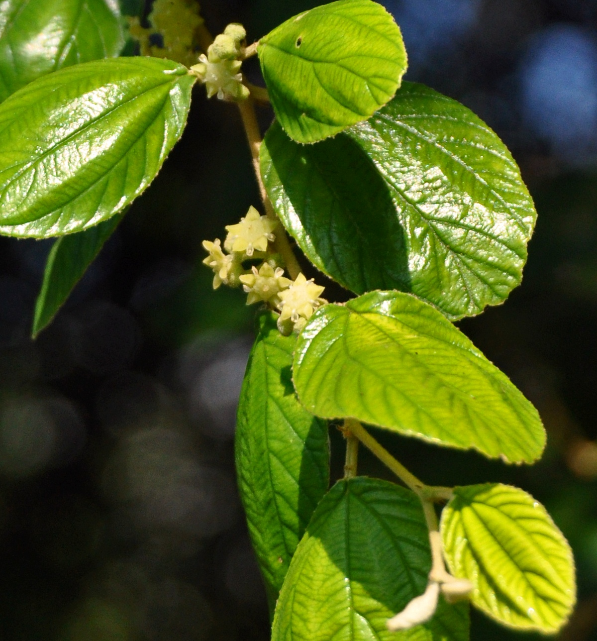 Leaves and inflorescence of wild Ziziphus mauritiana from North Lombok, Nusa Tenggara, Indonesia